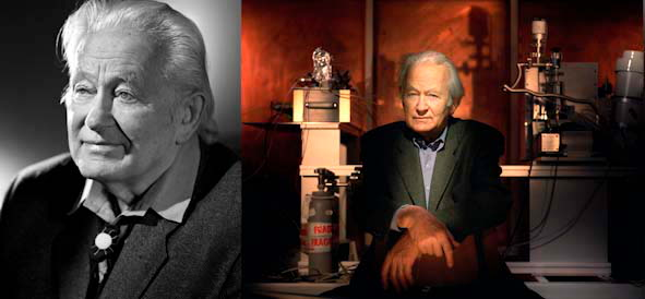 Georges Charpak photographed by Studio Harcourt Paris